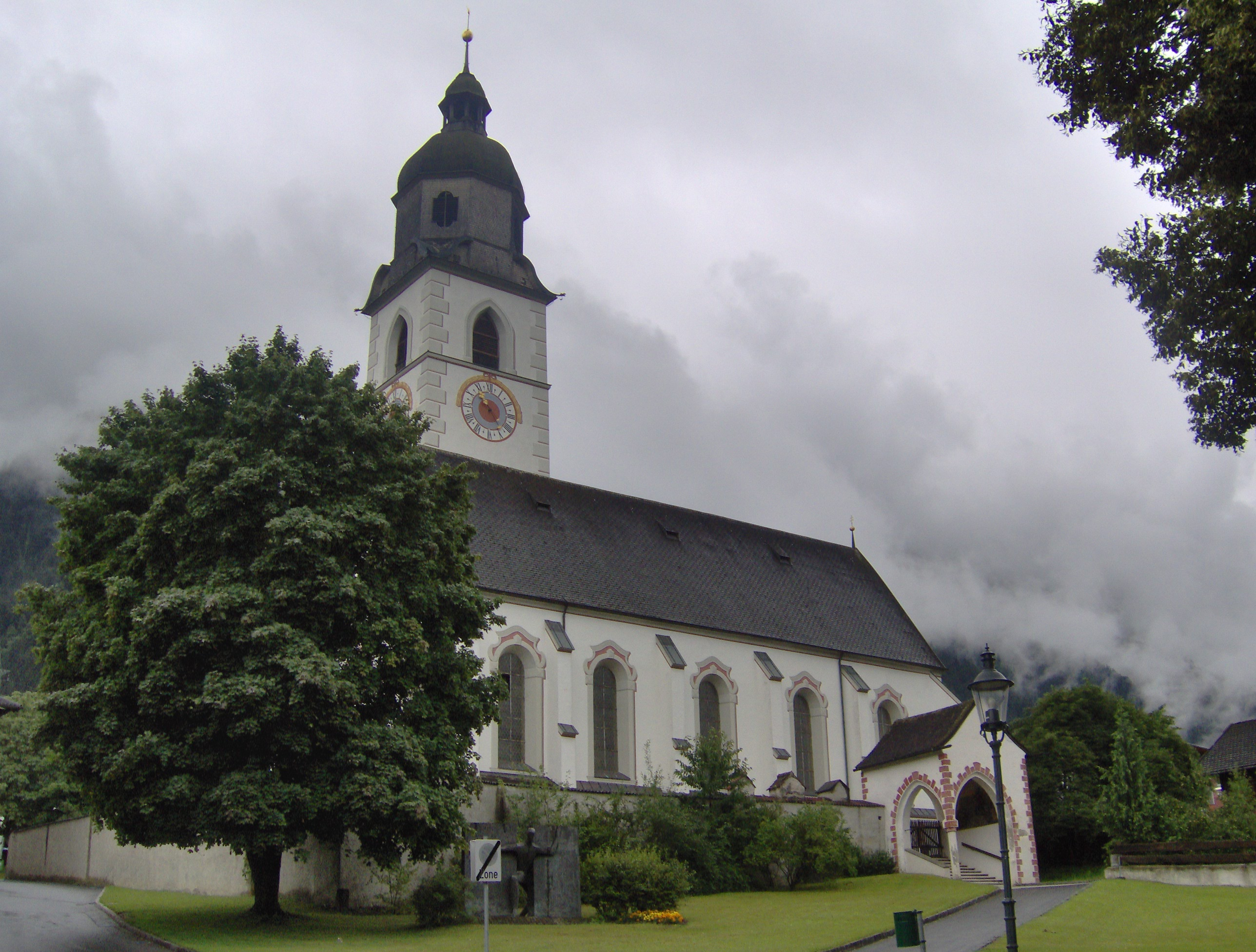 Stams (Tyrol, Austria), Parish church of St John the Baptist from north-east.